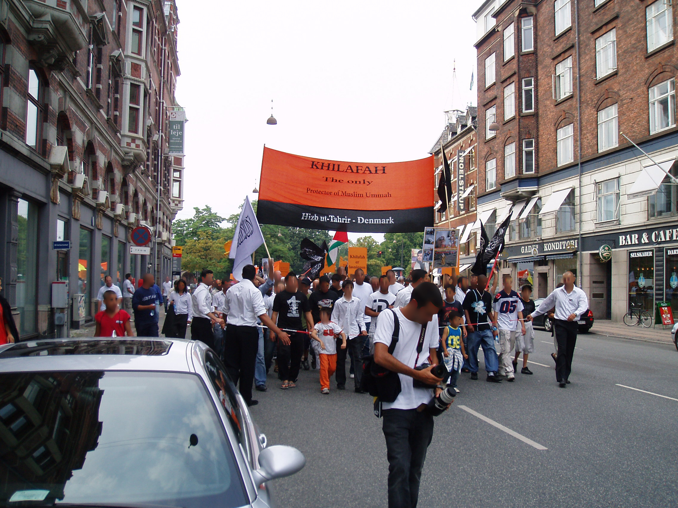 Hizb ut-Tahrir demonstrating in Copenhagen. Hizb ut-Tahrir is working for the establishment of an Islamic state ("Ummah") lead by one religious leader ("khilafah"/caliph).